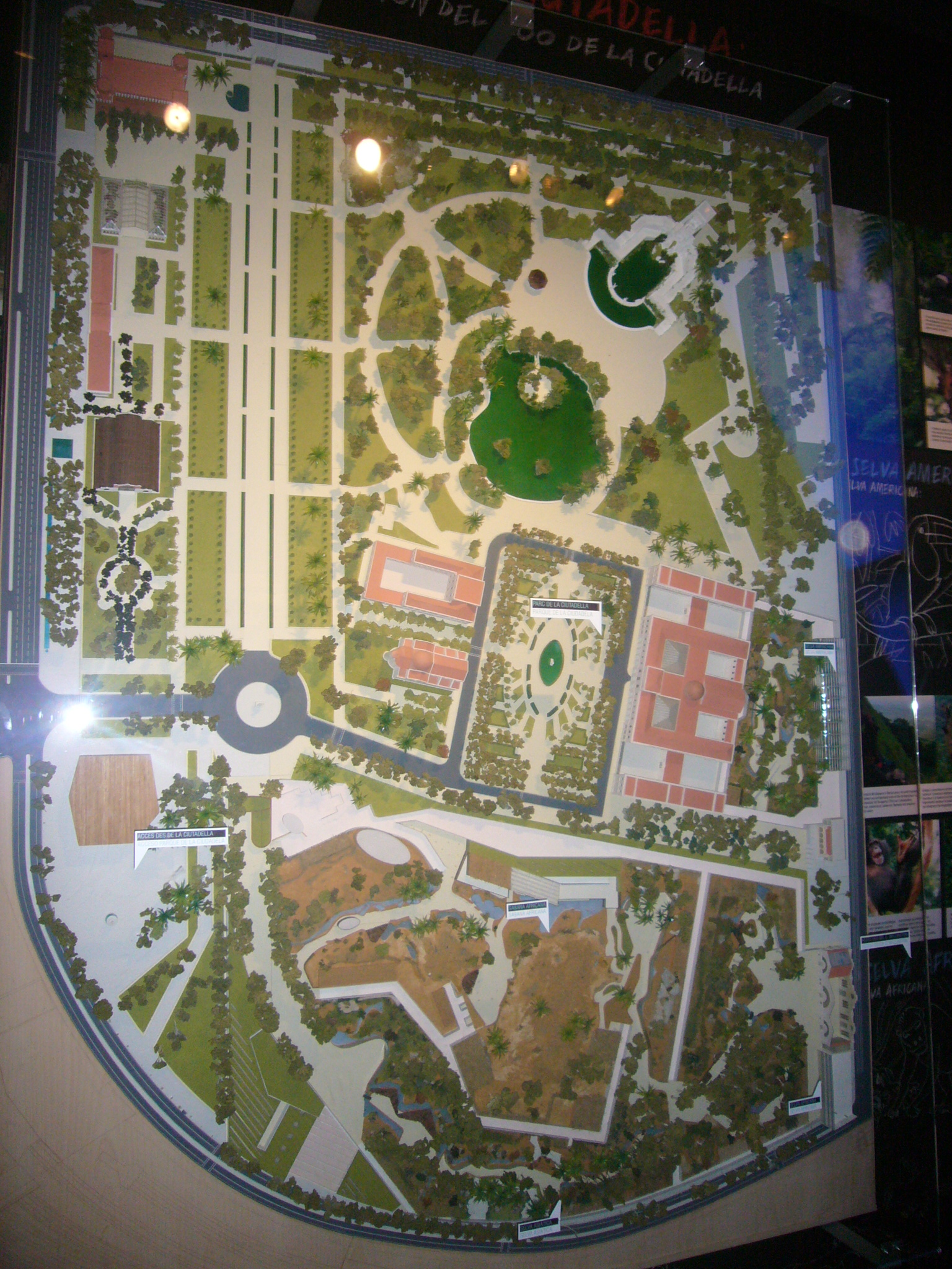 Scale Model of Parc de la Ciutadella, displayed at the Museu Blau